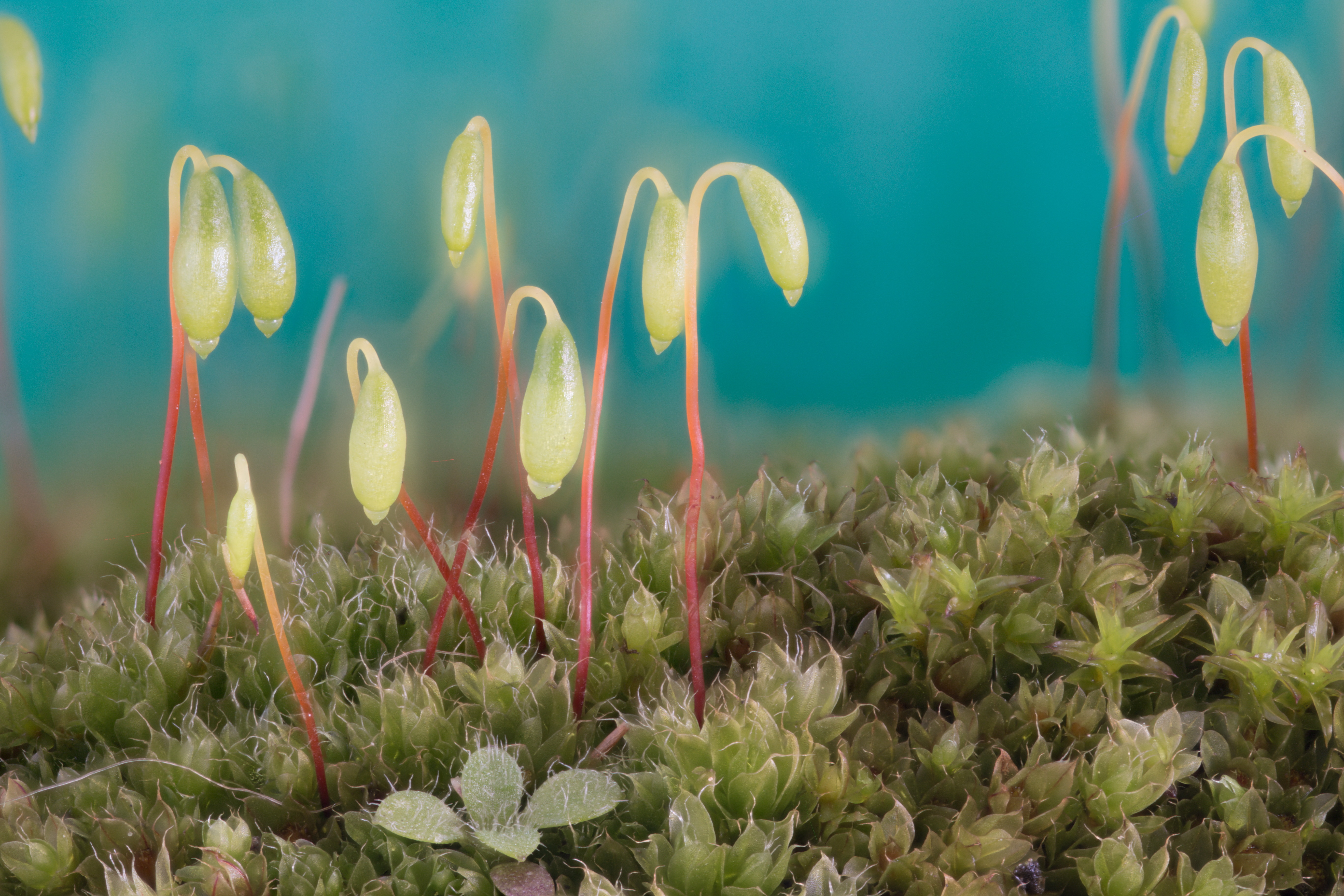 Macro Photography of Moss Sporophytes